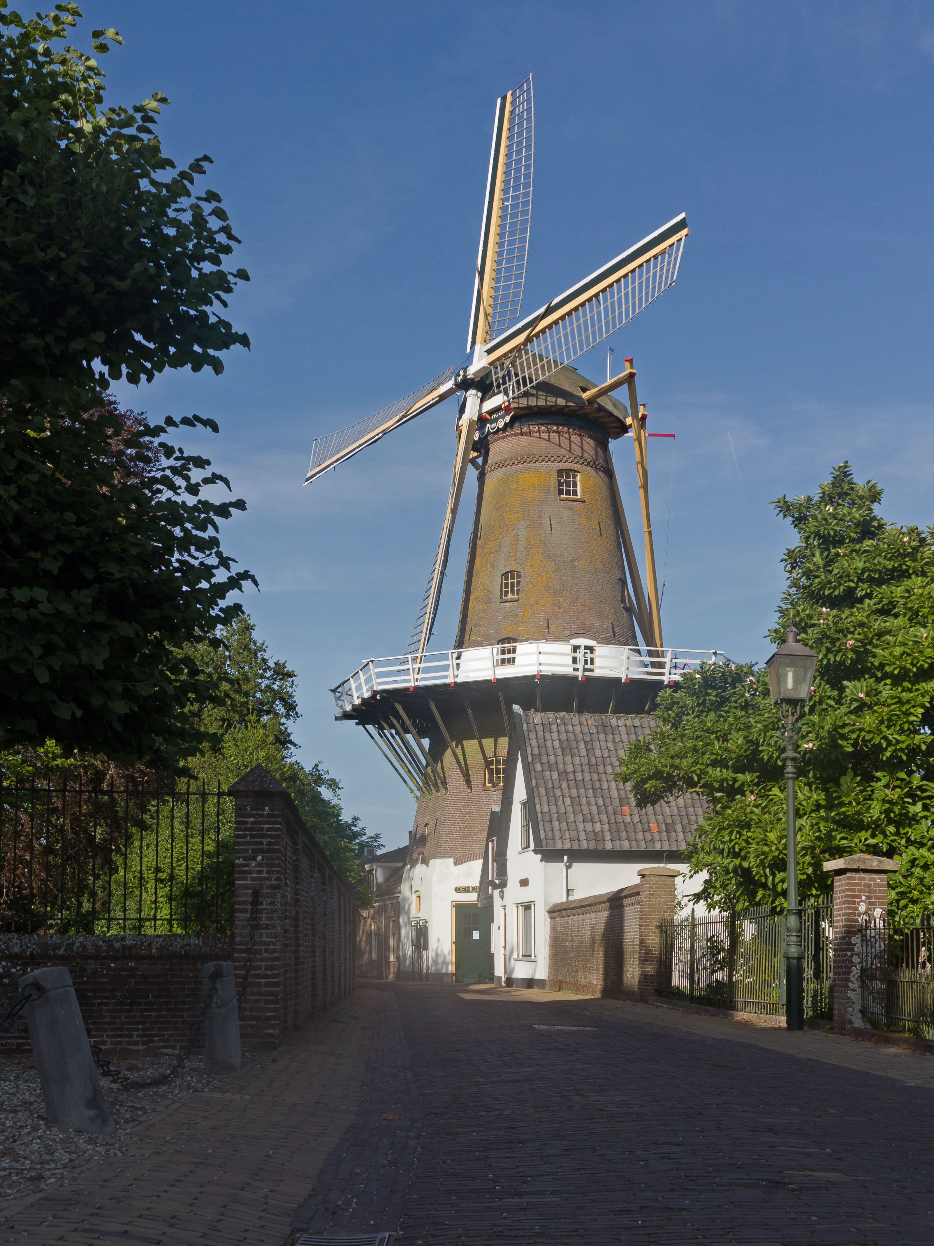 Loenen aan de Vecht, windmill: korenmolen De Hoop